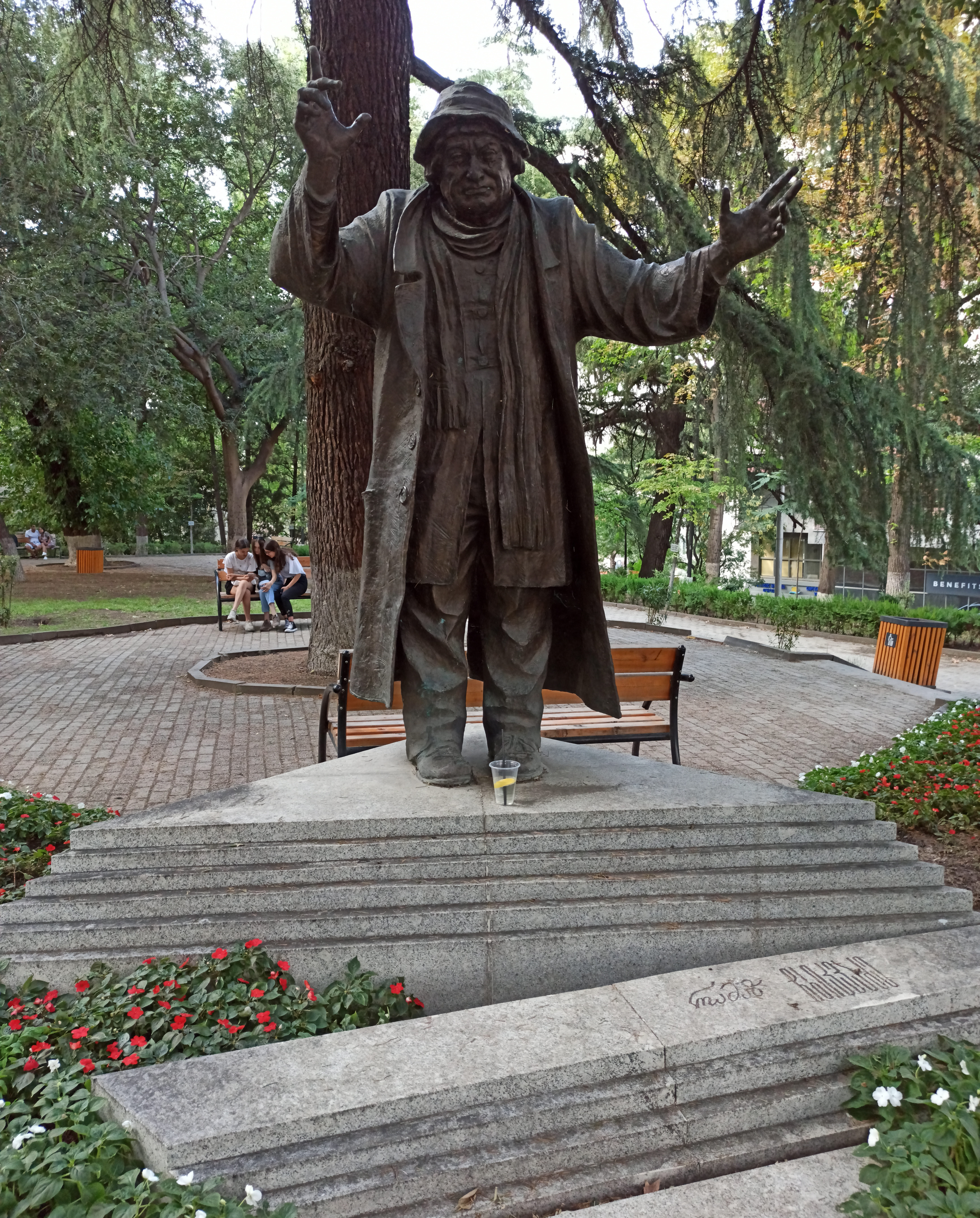 Ramaz Chkhikvadze statue in 9th of April Park, Tbilisi, Georgia